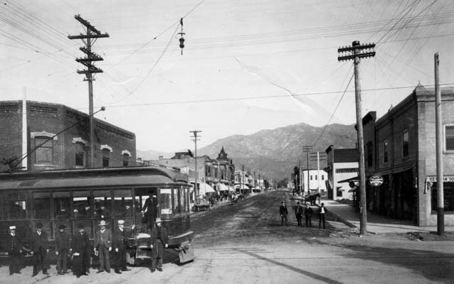 Myrtle and Olive streets on the arrival of the PE Rail line in Monrovia, California, 1903.